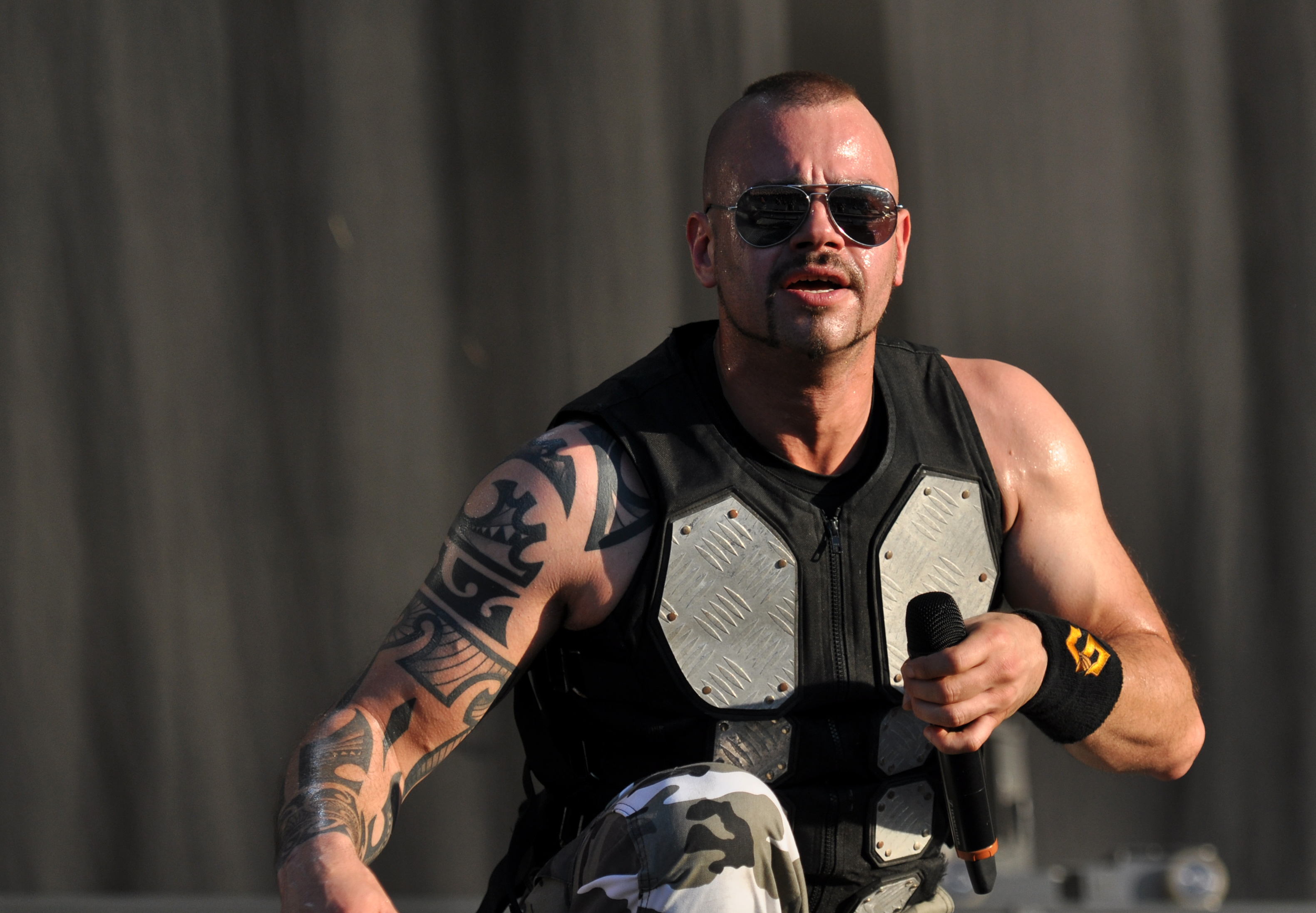 Sabaton at Wacken Open Air 2013